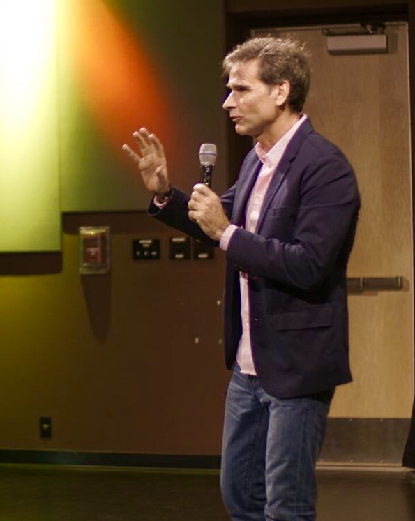 Paul Bouche at the Premiere of OFFS!DE